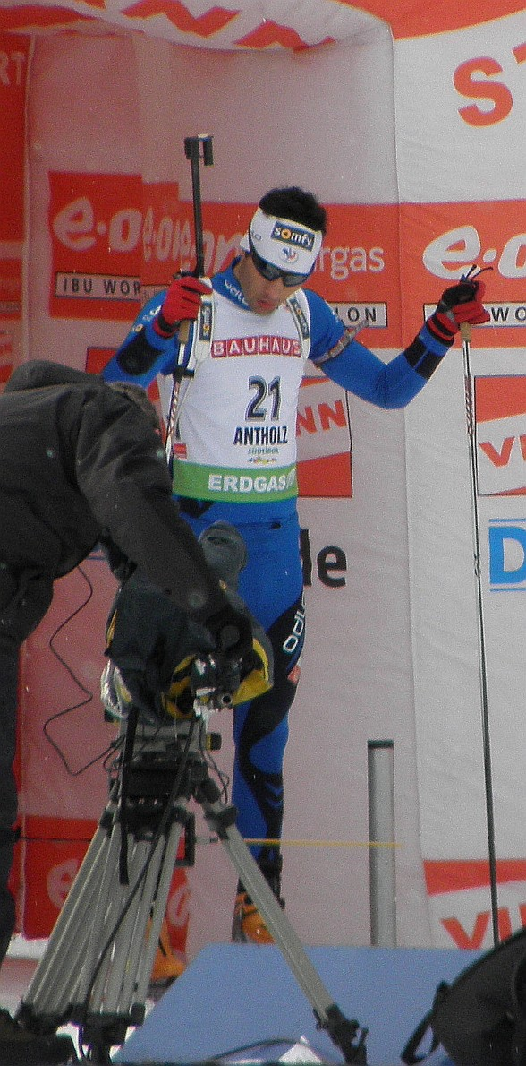 in Antholz, 21-01-2010